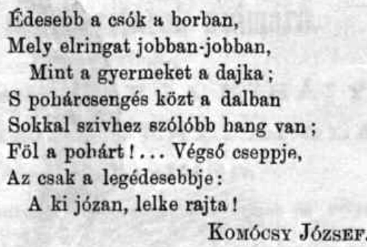 Poem of Komócsy József